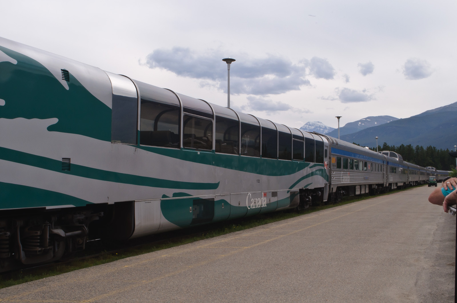 Via Rail's Canadian at Jasper in 2012. In the foreground is one of Via's "Panorama Domes," manufactured by Colorado Railcar.